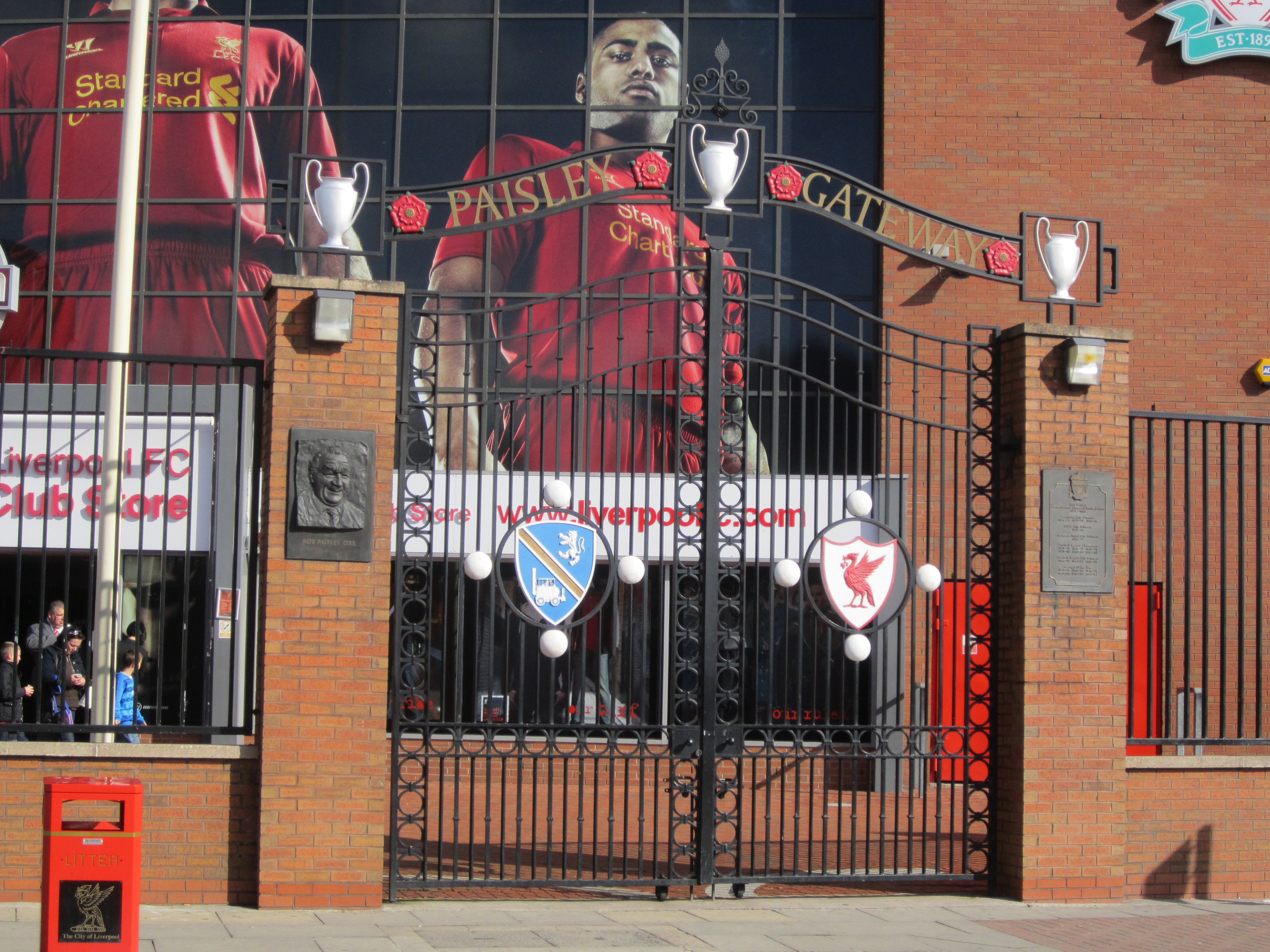 Paisley Gateway, Anfield Stadium, Walton Breck Road, Liverpool, England.